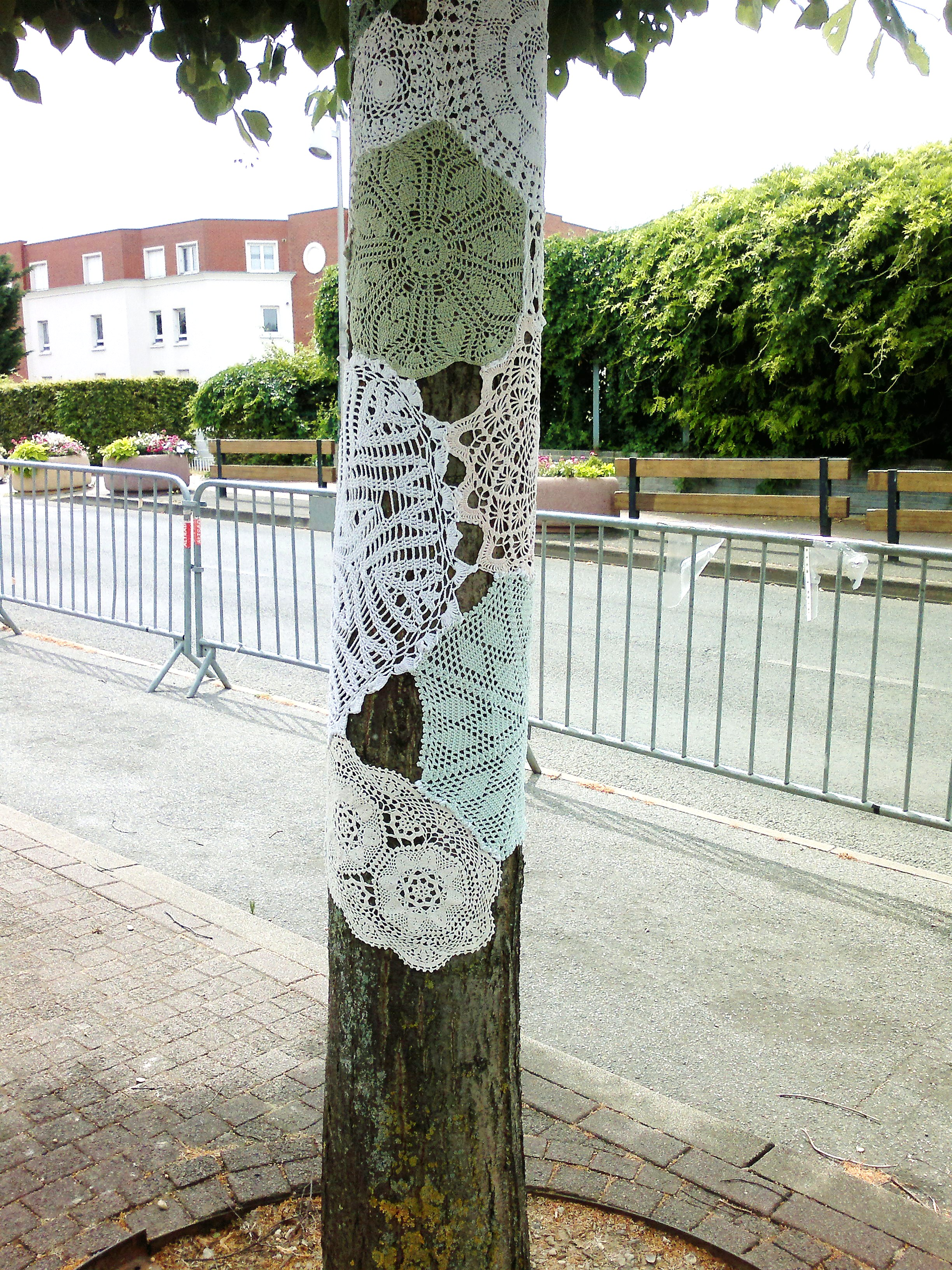 Yarn bombing 2015 in Evry (France) - lace theme. Crocheted doilies installed by Christine Chazot ("Sicilienne" on ).